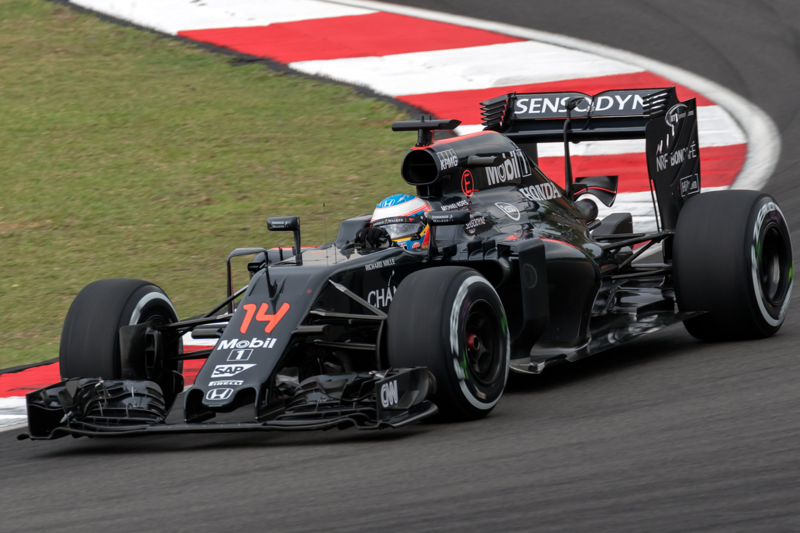 Formula One 2016 Rd.16 Malaysian GP: Fernando Alonso (McLaren)